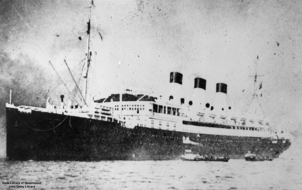 Cap Polonio (ship) Hamburg - South America Line. (Description supplied with photograph).